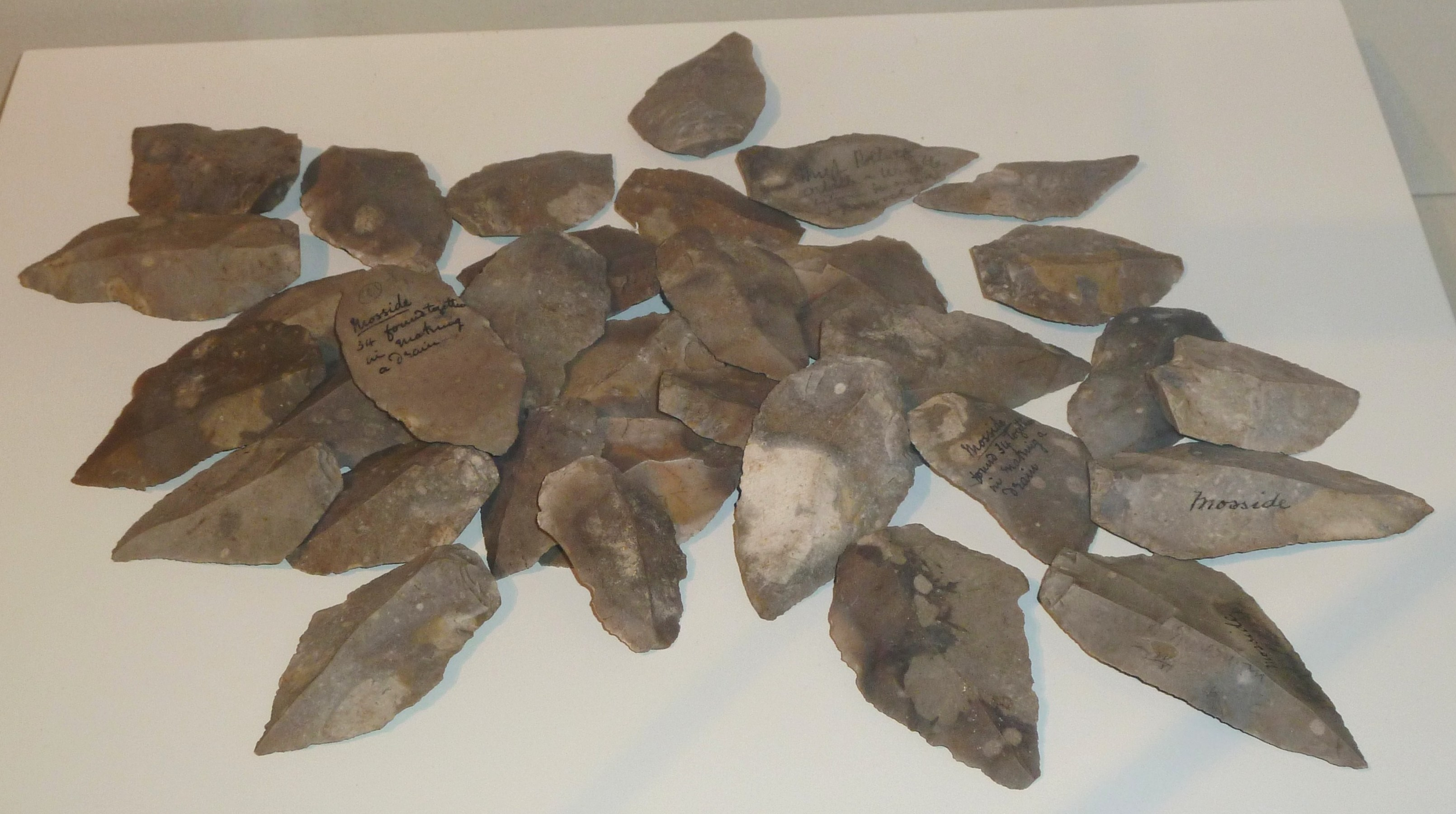 Ulster Museum Mesolithic artefacts 8. Moss-side hoard. Moss-side near Ballycastle, Co. Antrim, Ireland.